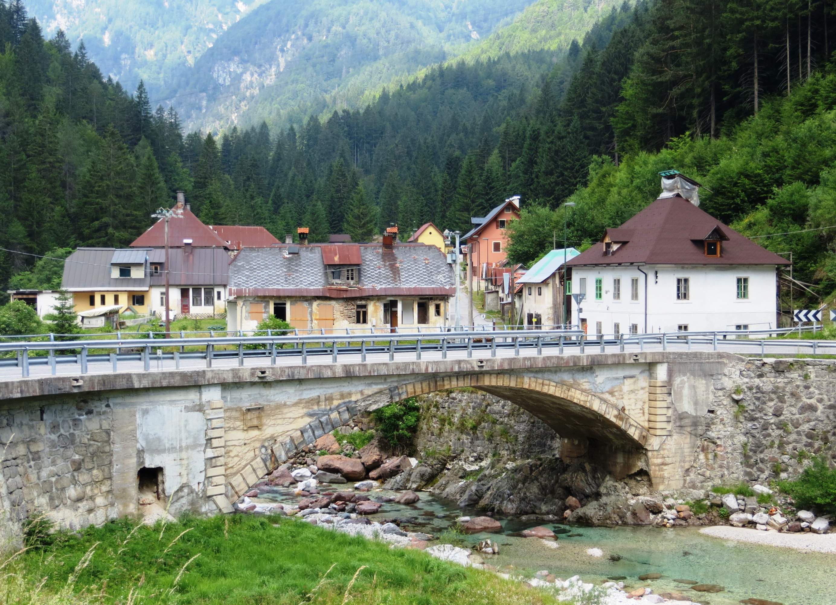 Riofreddo in Tarvisio, Udine, Friuli-Venezia Giulia, Italy